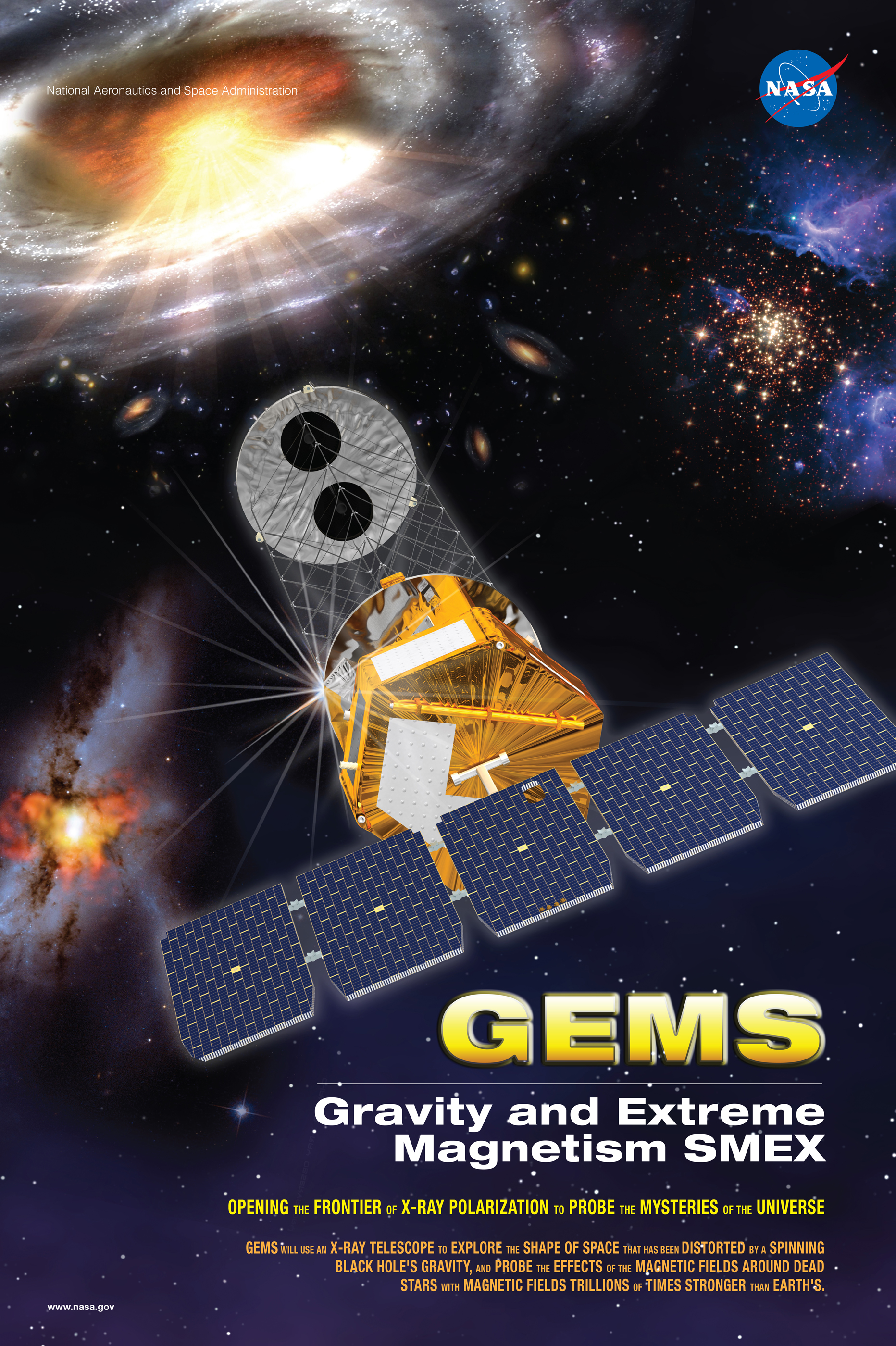 Public GEMS poster.